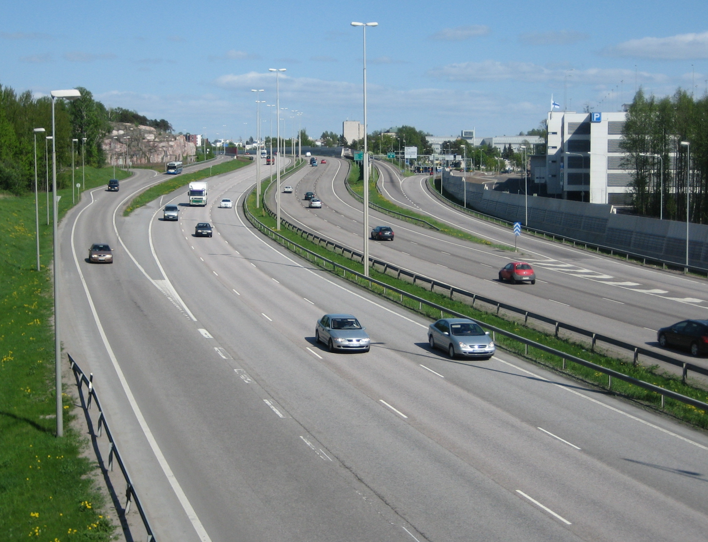 Highway 4/7 (E75, Lahdenväylä motorway) in Helsinki, Finland